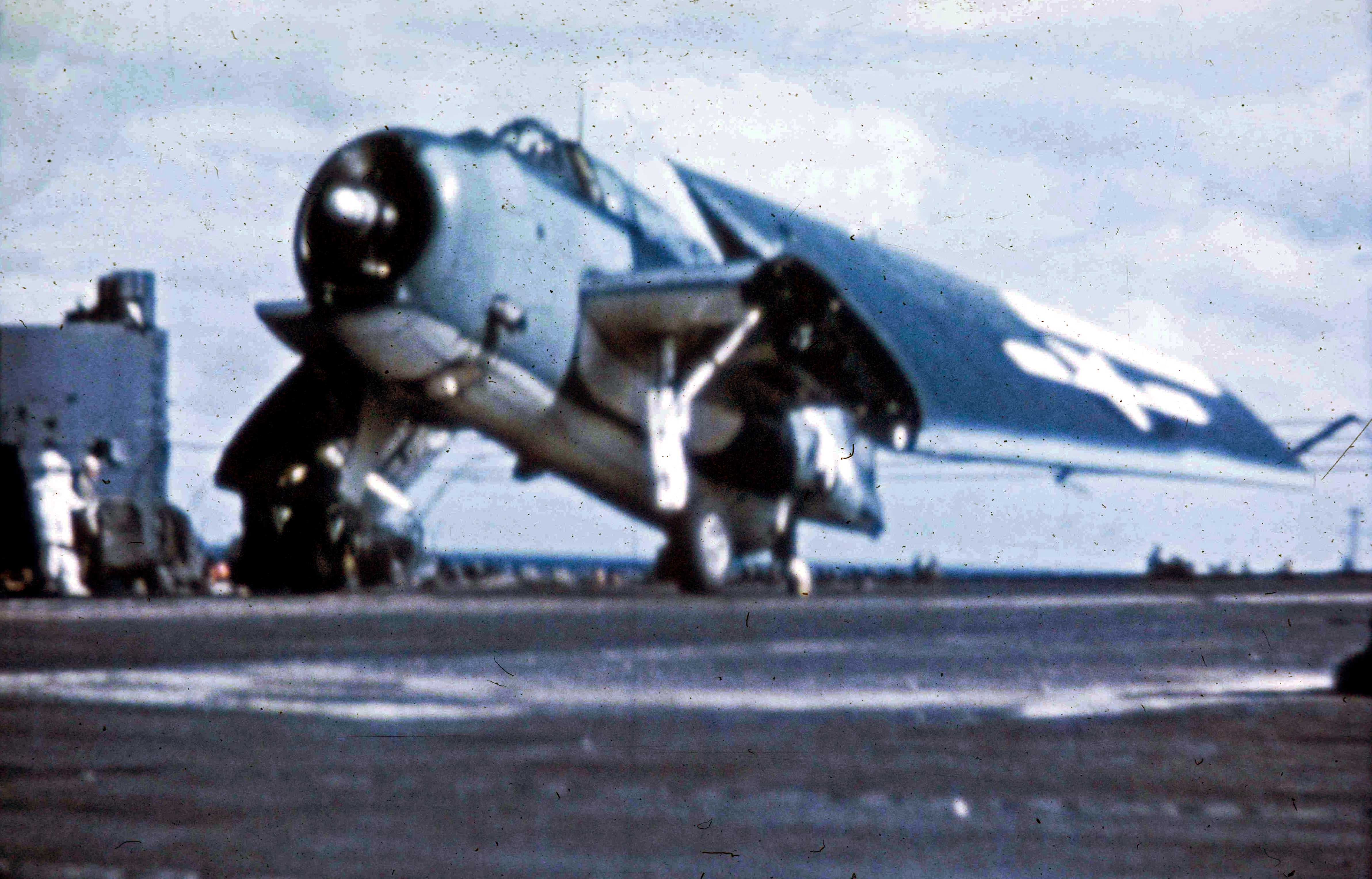 A U.S. Navy Grumman TBM Avenger folding its wings after landing aboard an aircraft carrier in the Pacific, 1945. The geometric identification symbol on the wing shows that the plane was assigned to the USS Randolph (CV-15).